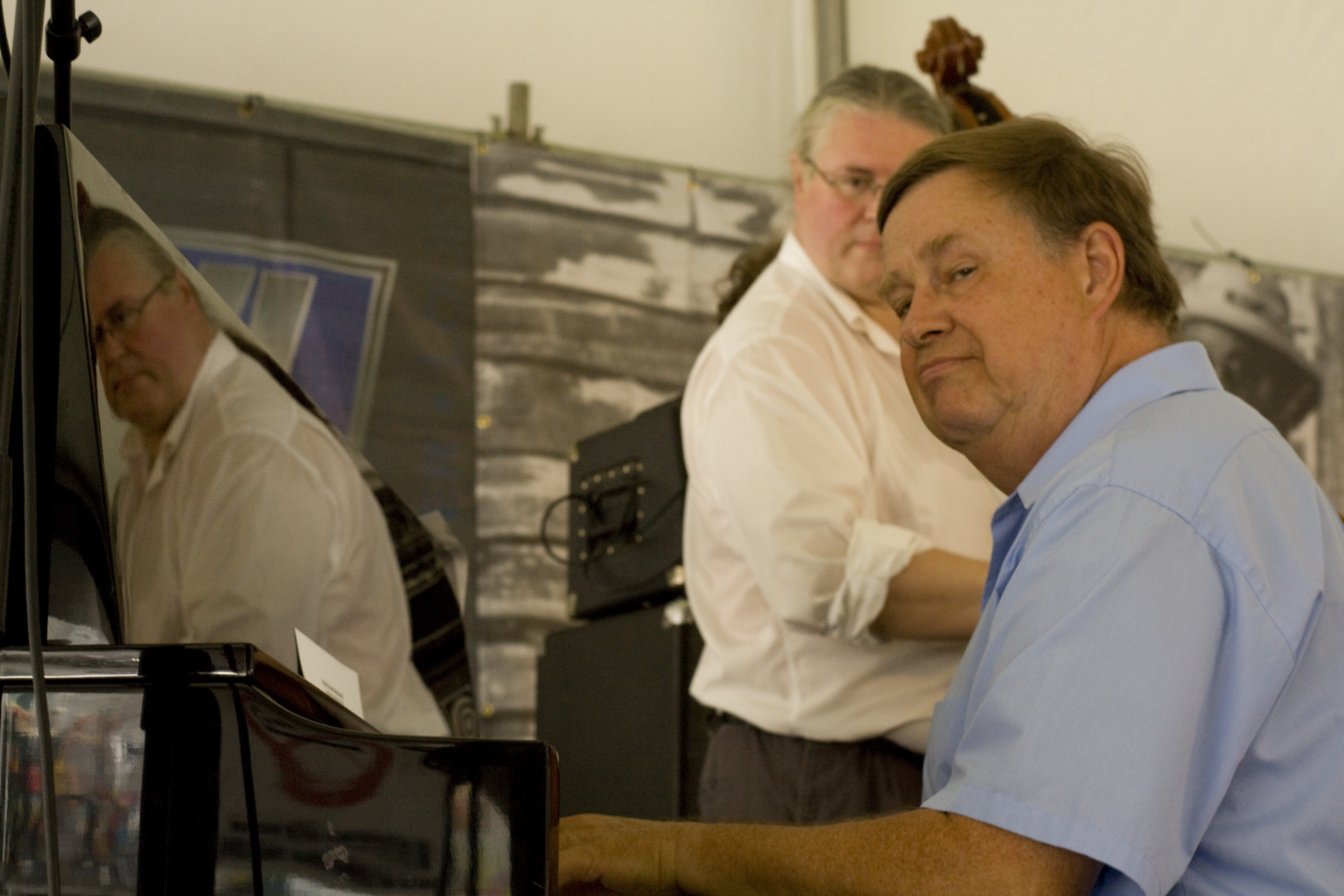 Lars Edegran on piano, Satchmo SummerFest. Tom Saunders on string bass can be seen behind him and also reflected on the piano.